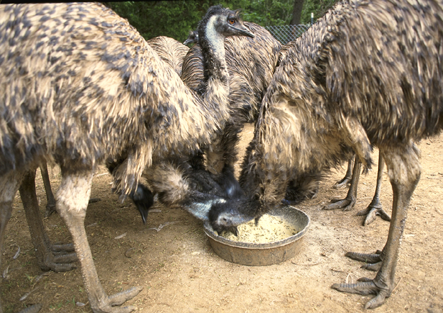 Farmed Emus eating at Virginia's Emu Marketing Cooperative near Warrenton, VA